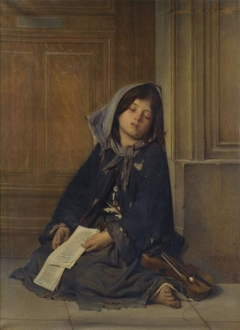 The young rag-gather